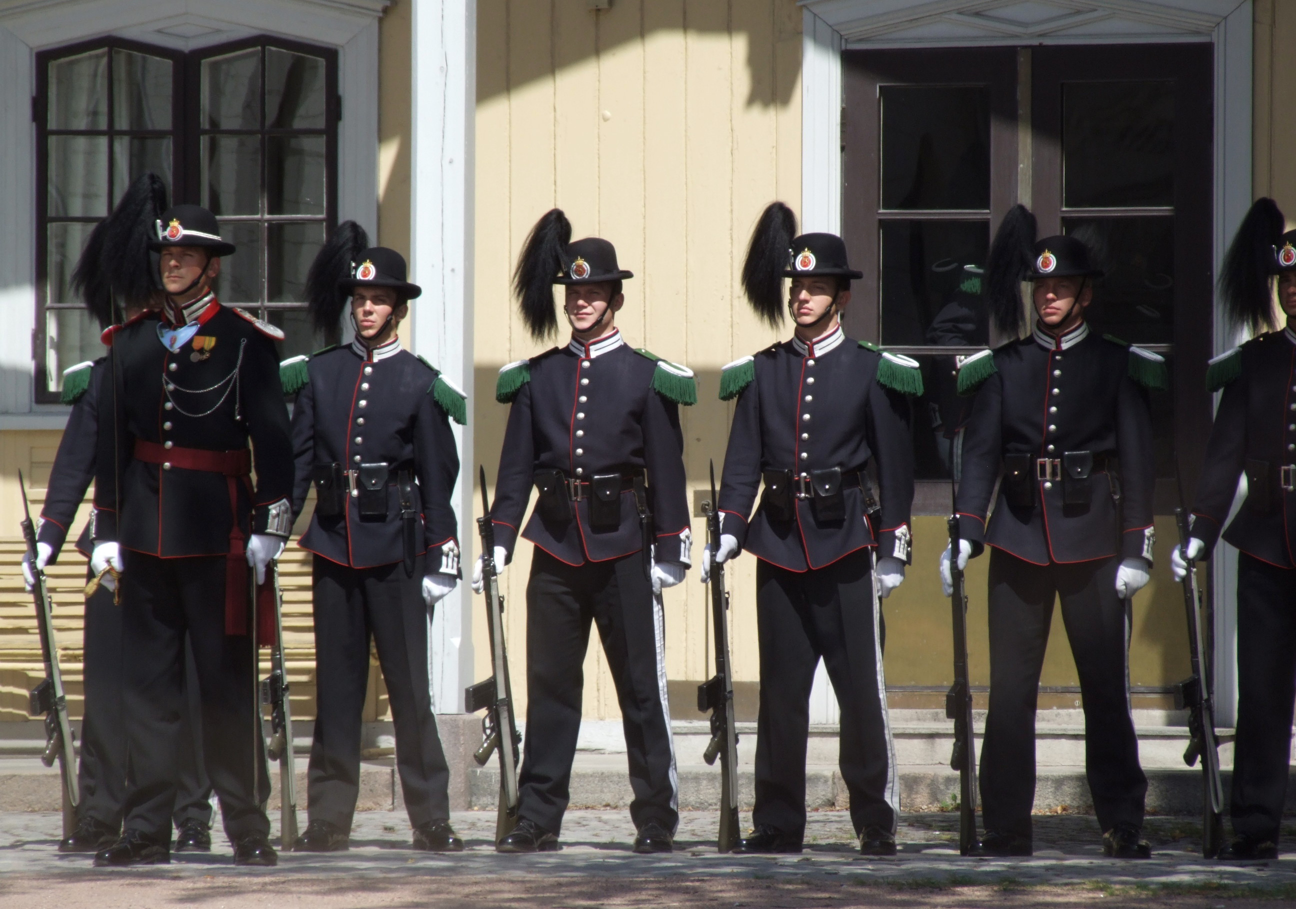 Royal Guardsmen (Hans Majestet Kongens Garde) in Oslo